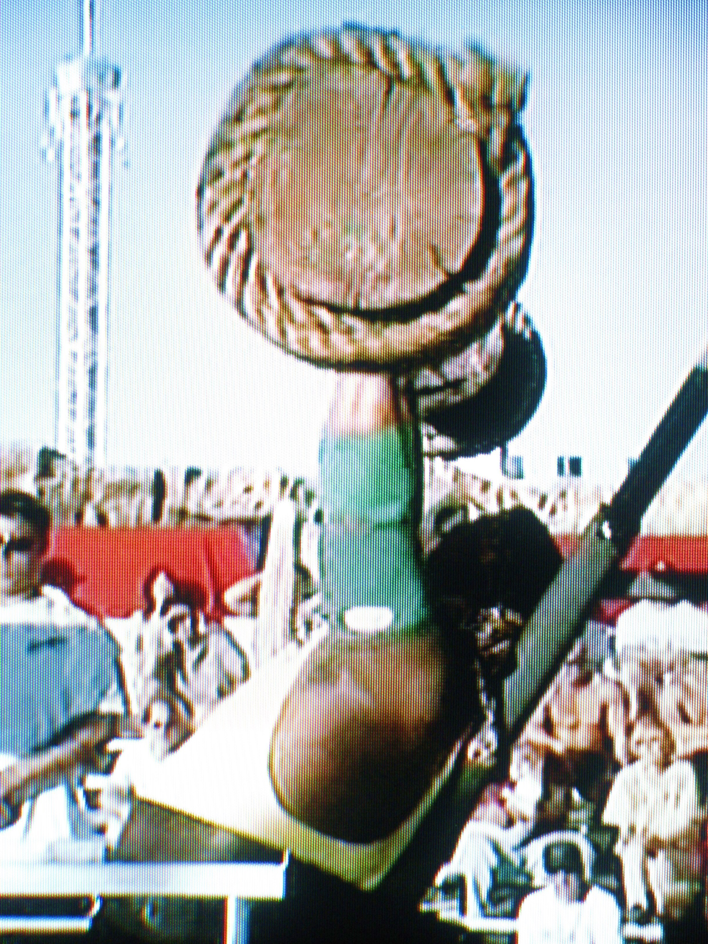 Strongmen event: the Log Lift.